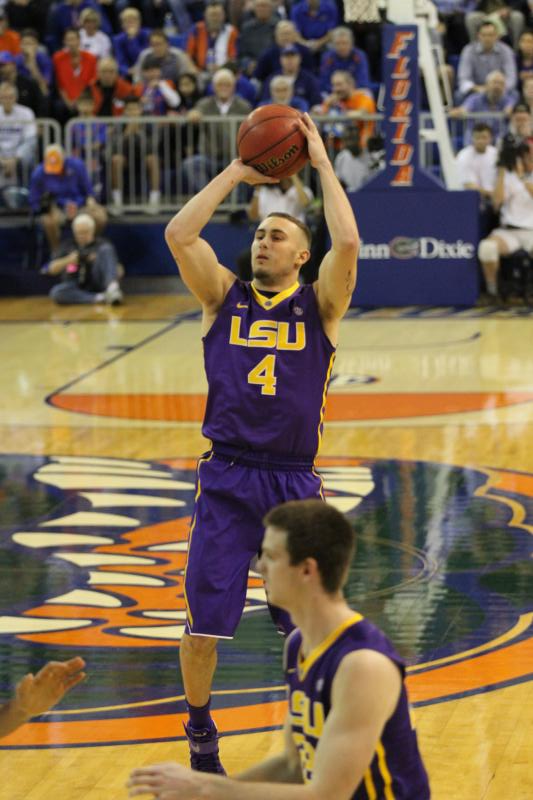 LSU vs Florida Gators 2015/01/20